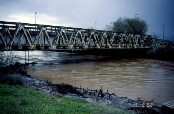 A Bailey bridge over Kishon River near Haifa.